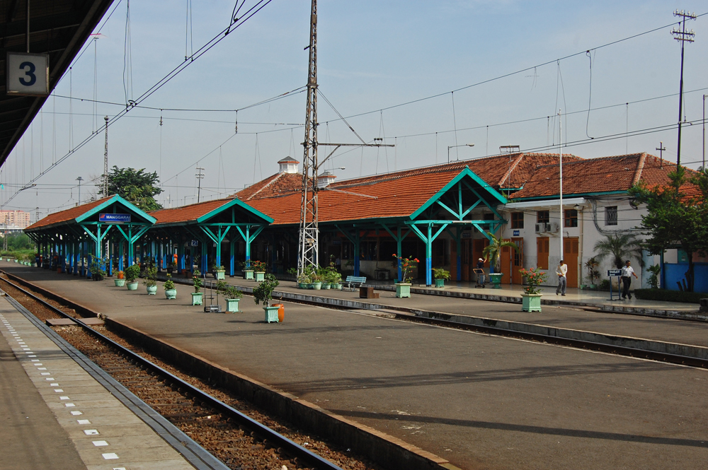 Manggarai train station in Jakarta, Indonesia